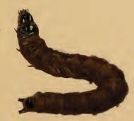 Stainton’s Natural History of the Tineina (1855–1873): Agonopterix kaekeritziana